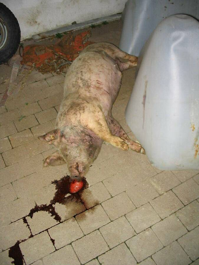 dead pig